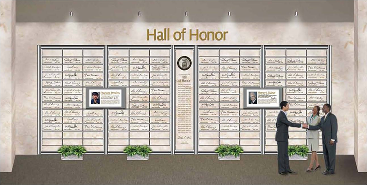 U.S. Department of Labor Hall of Honor, showcase highlighting the life-changing contributions that women, men, groups and organizations have made which have had a profound, positive impact on the American way of work and the American way of life.